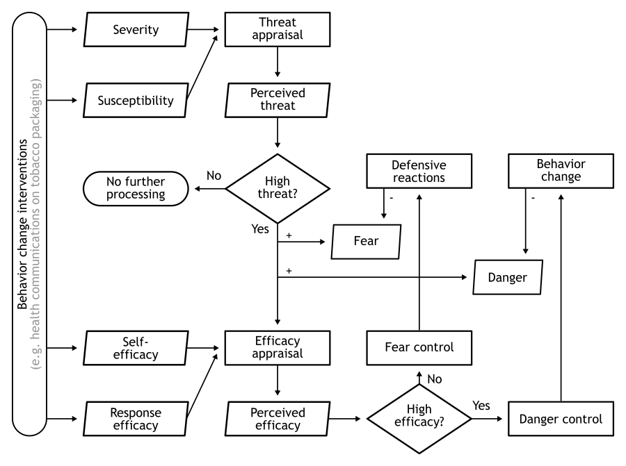 This is the extended parallel process model, a model describing how people respond to threatening communications. It can be used to determine whether fear appeals are a feasible intervention strategy.